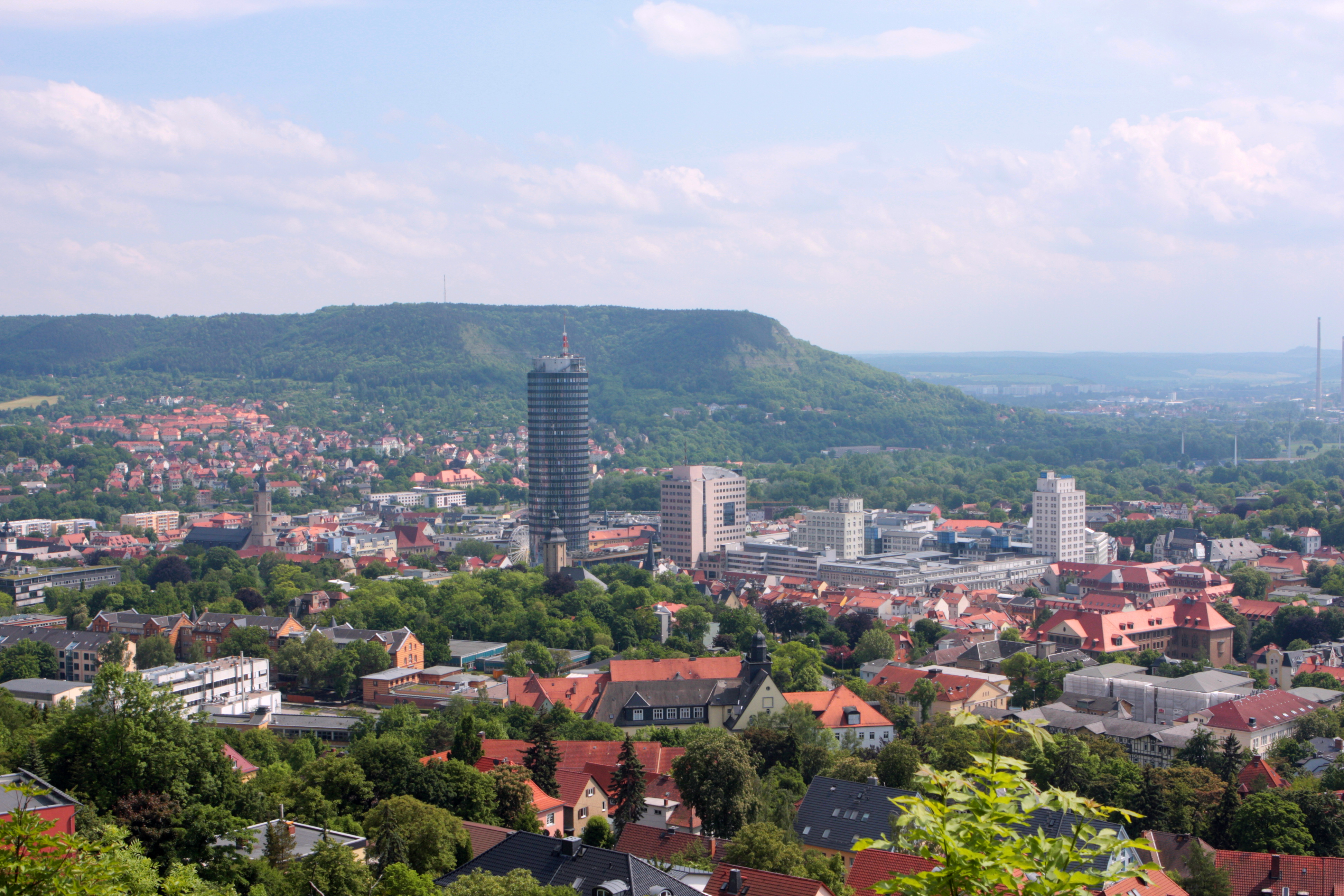 city center of Jena